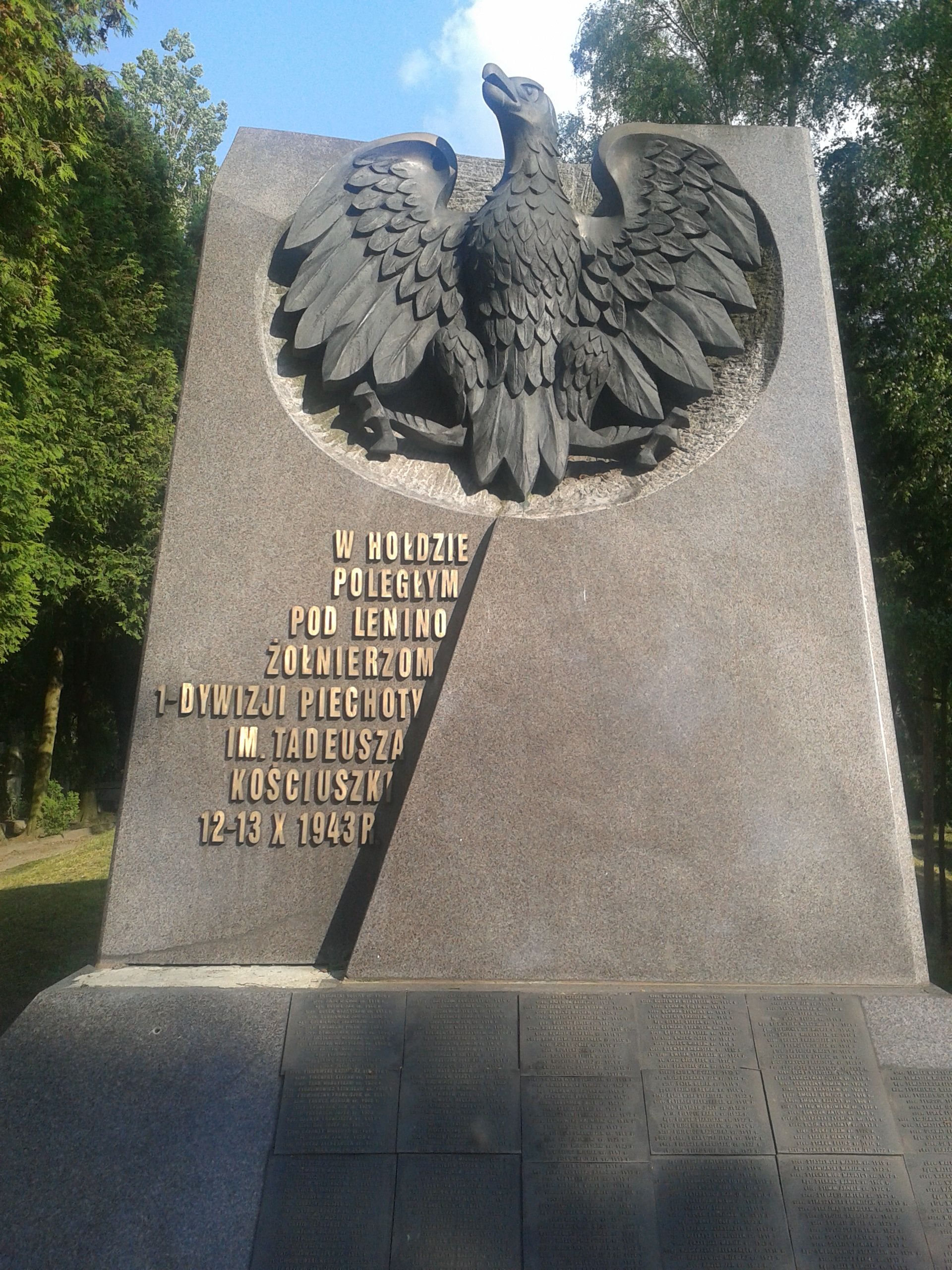 The monument of Polish 1st Tadeusz Kościuszko Infantry Division. Military Cemetery in Warsaw